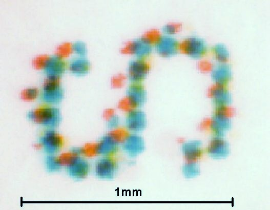 grey s made with inkjet printer